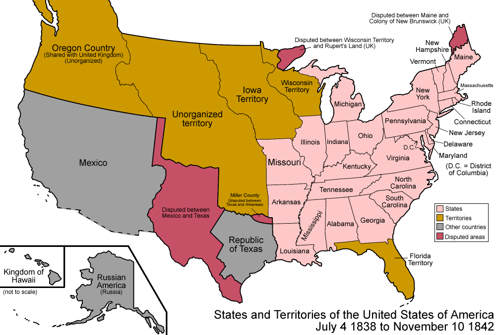 Map of the states and territories of the United States as it was from 1838 to 1842. On July 4 1838, Iowa Territory was split from Wisconsin Territory. On November 10 1842, a treaty settled all border disputes with lands held by the United Kingdom.